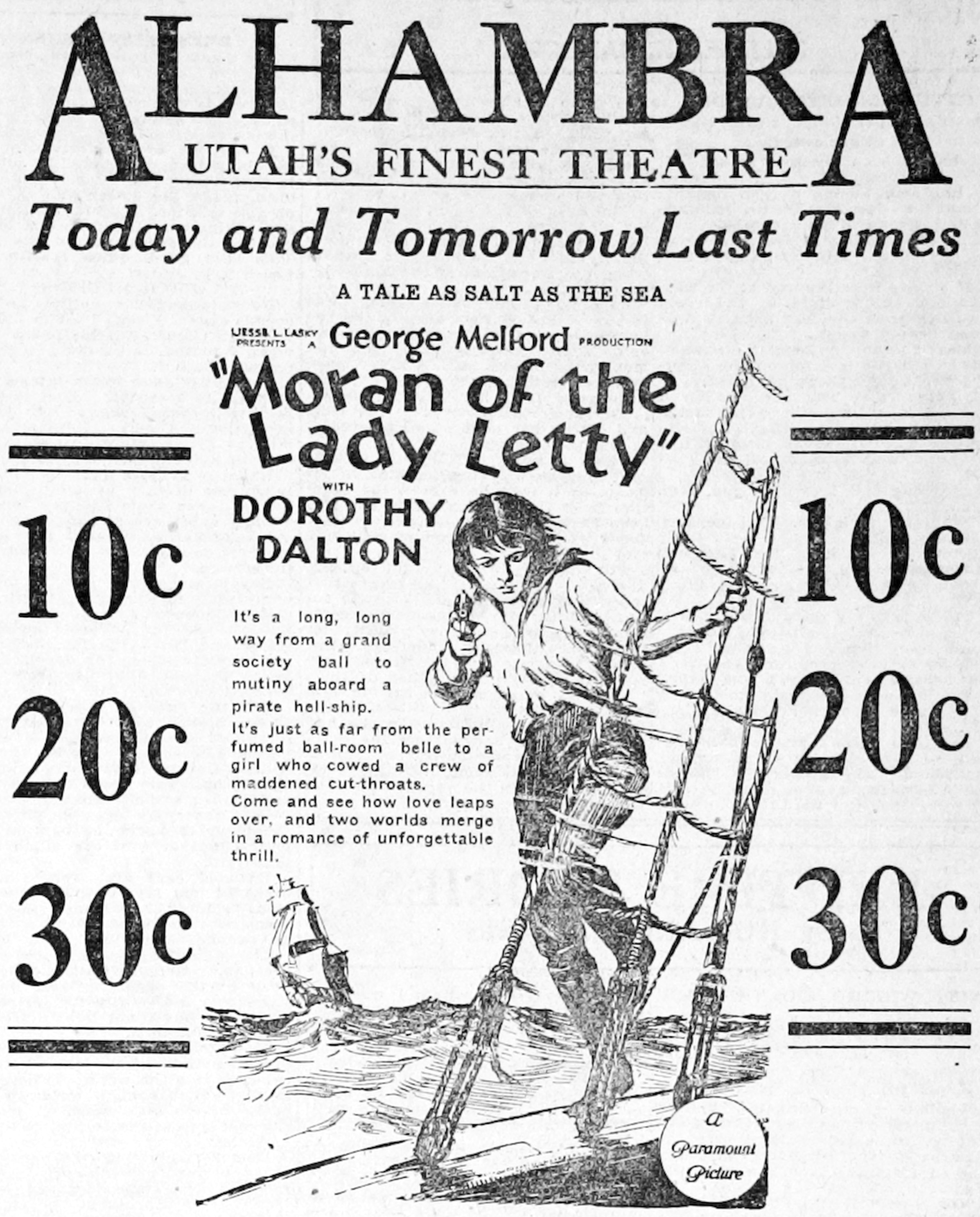 Moran of the Lady Letty is a 1922 silent film adventure produced by Famous Players-Lasky and distributed through Paramount Pictures. This is a newspaper advertisement for the film from The Ogden Standard-Examiner.